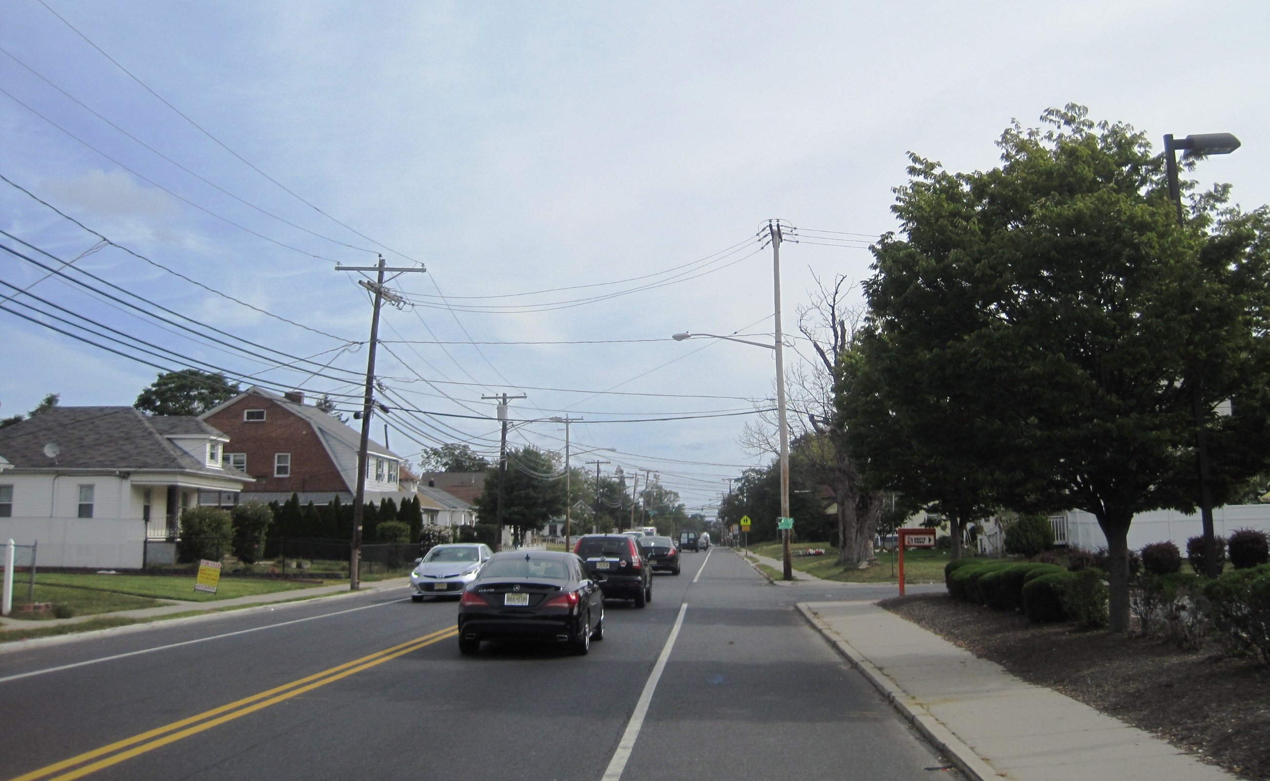 Photo showing Branchport, New Jersey, an unincorporated community within Long Branch. Photo taken along north/eastbound New Jersey Route 36 past the North Jersey Coast Line crossing.